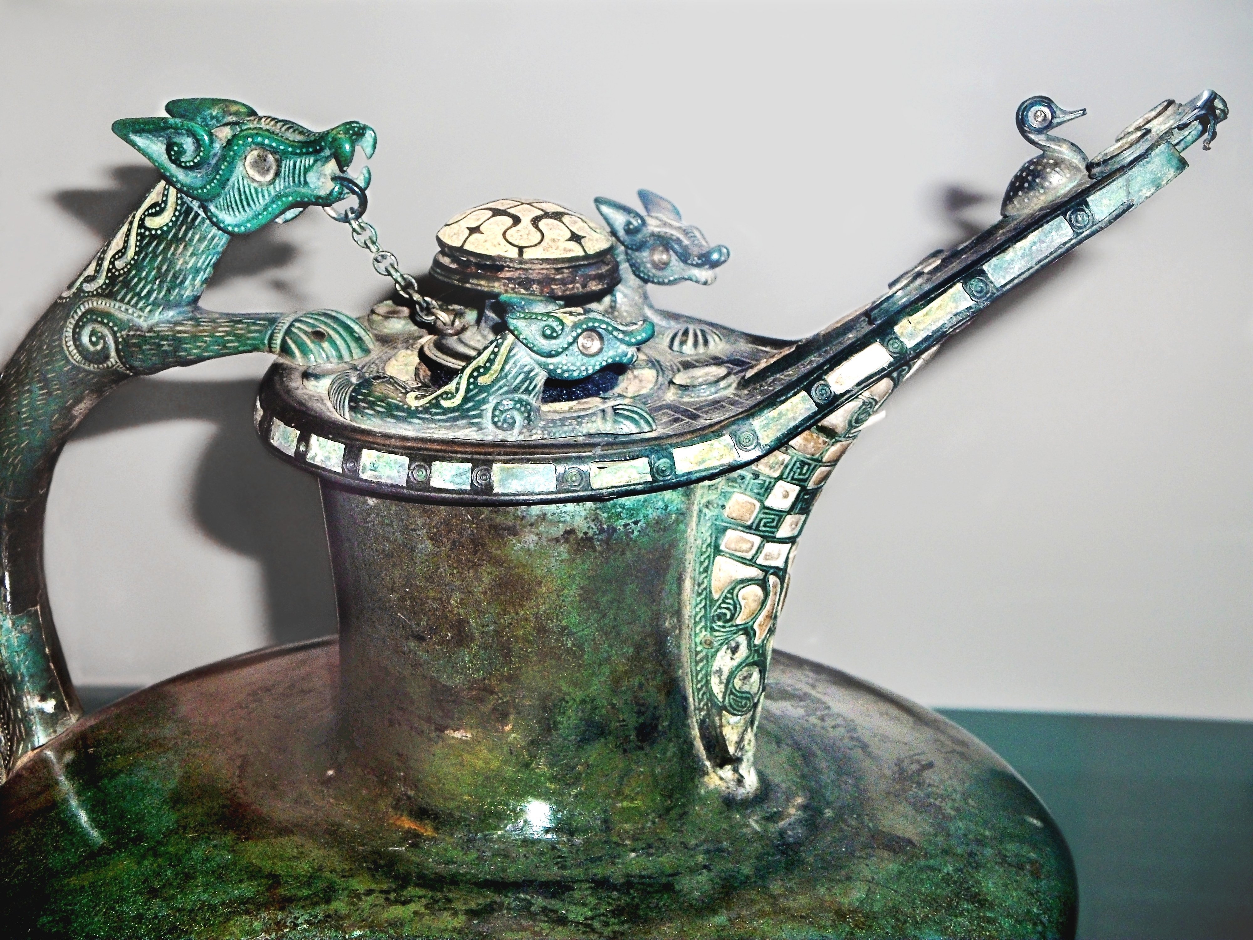 Top of one of the Basse Yutz flagons. La Tene style